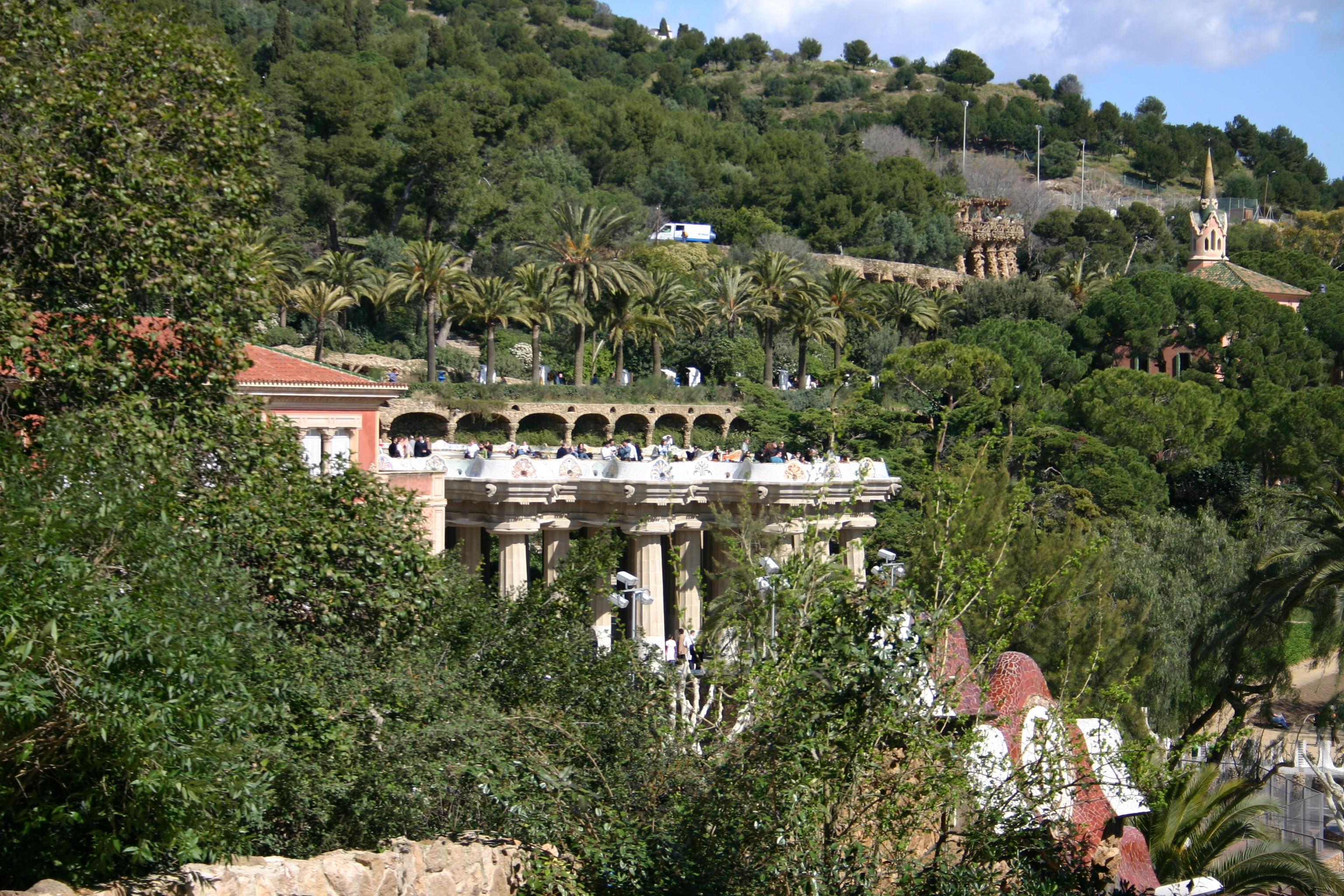 Overview of Park Güell